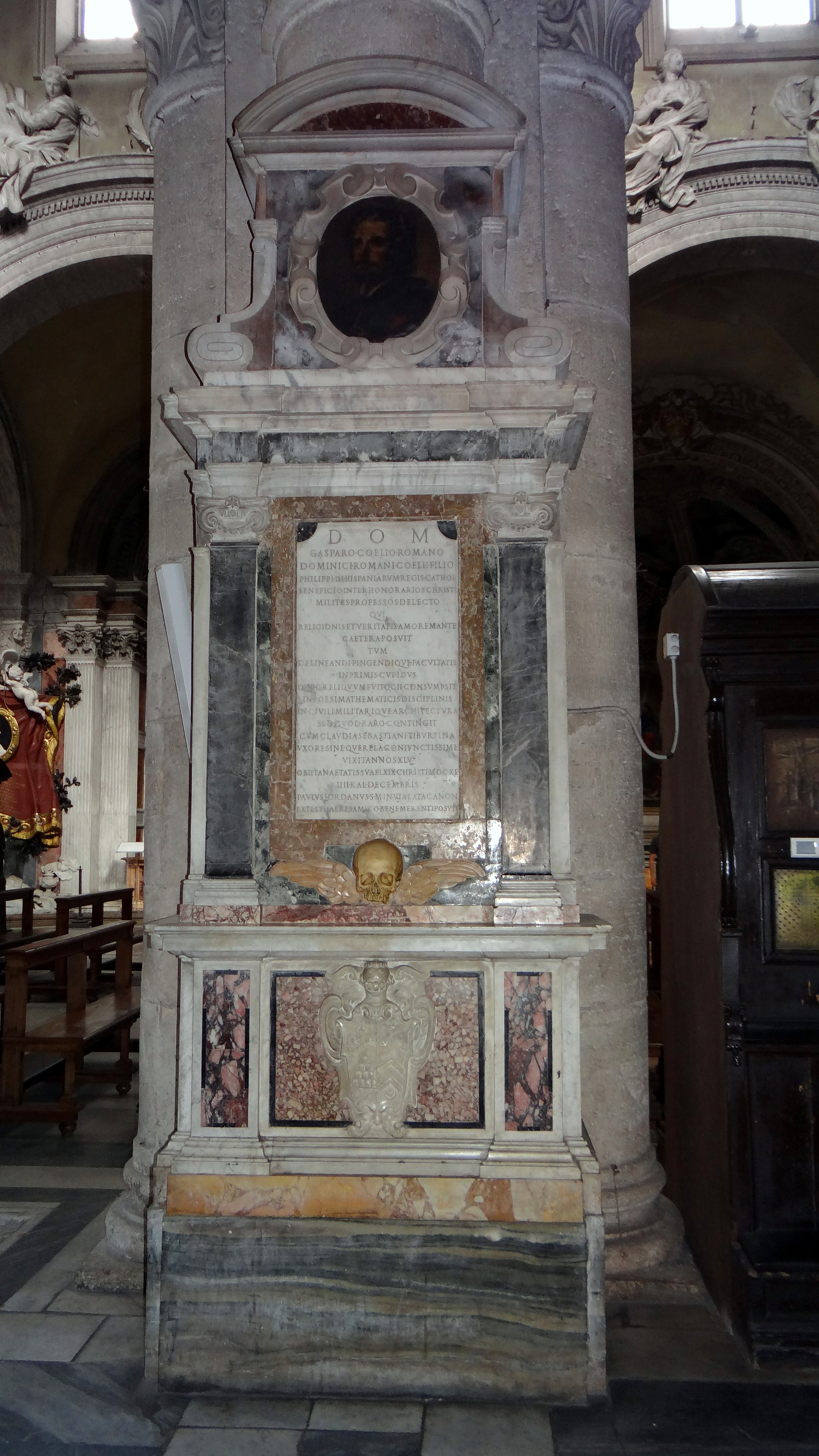 The tomb of painter Gaspare Celio in Santa Maria del Popolo, Rome (after 1640). Oil portrait by Francesco Ragusa.